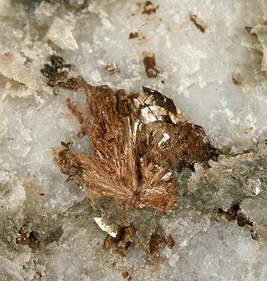 Metaswitzerite Locality: Foote Lithium County Mine (Foote Mine), Kings Mountain District, Cleveland County, North Carolina, USA (Locality at ) Size: 6.6 x 6.5 x 1.2 cm. Sharp, golden metaswitzerite crystals to 7 mm, including several of unusual thickness and width, perched nicely on a well trimmed matrix. Ex. Rice Northwest Museum Collection.